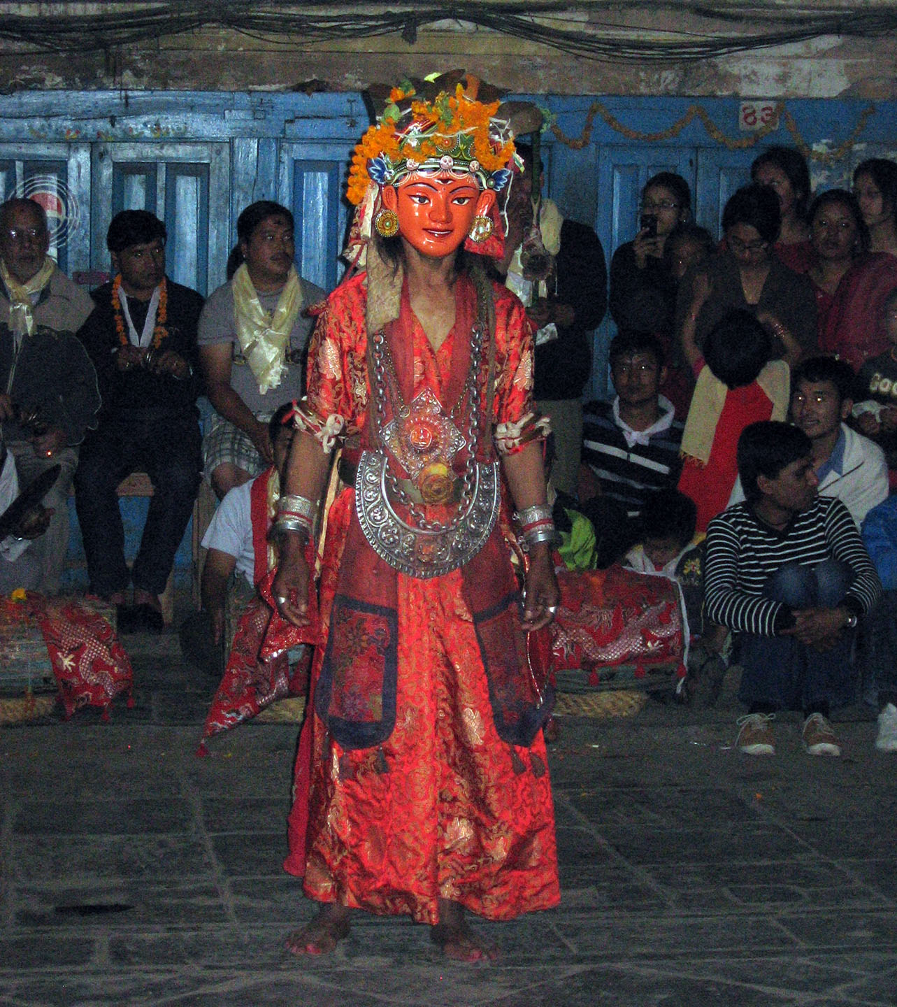 The Nyetamaru Ajima Pyakhan masked dance is performed by the Newars of Kathmandu at Nyeta. The dance drama lasts all night and all day. Photos shows one of the masked dancers and musicians and spectators.